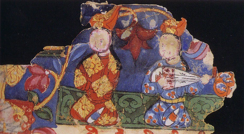 Detail of the Manichaean illuminated codex MIK III 6368. Museum of Indian Art, Berlin.